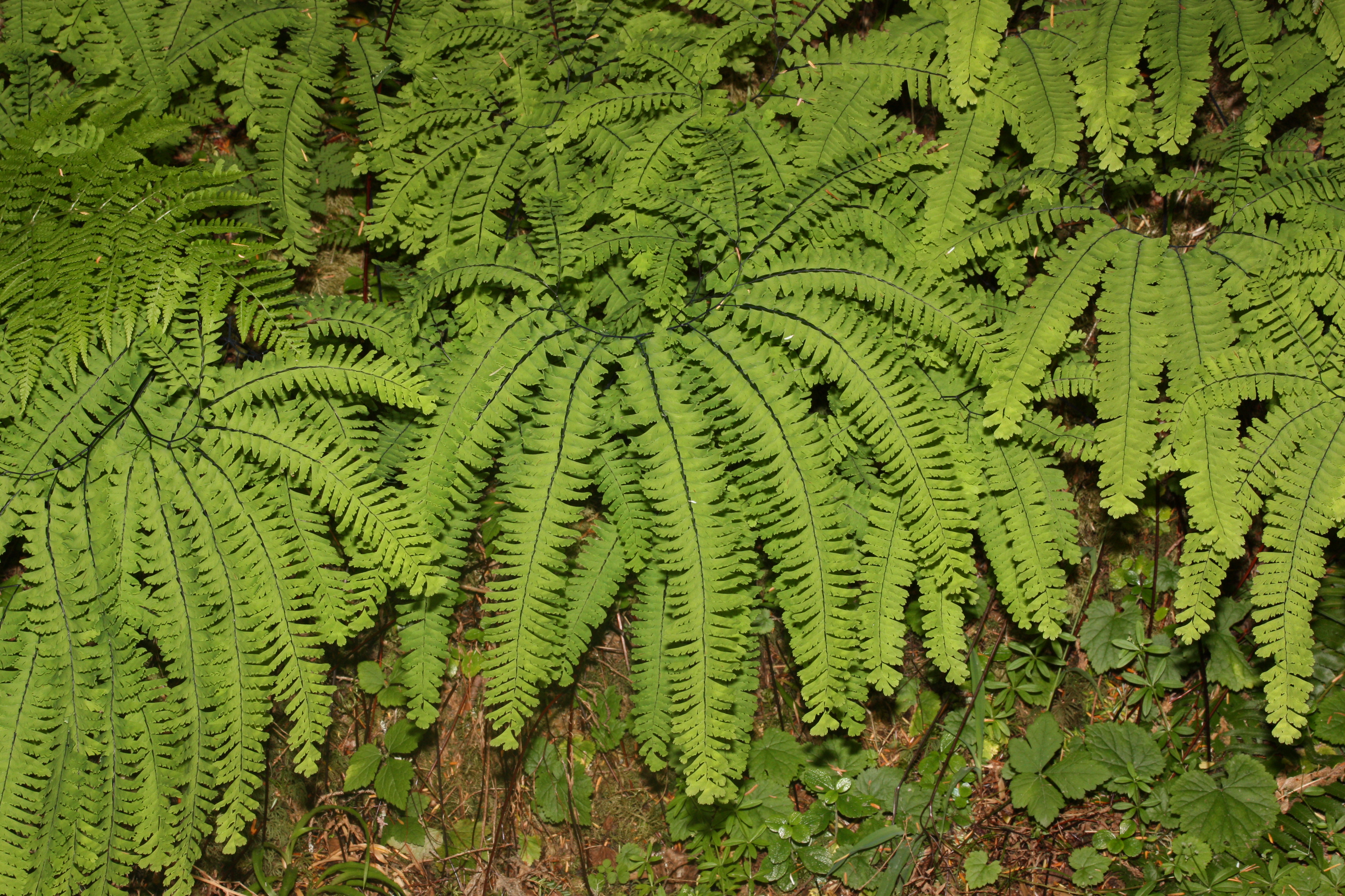 Aleutian Maidenhair, Western Maidenhair (syn. Adiantum pedatum ssp. aleuticum)